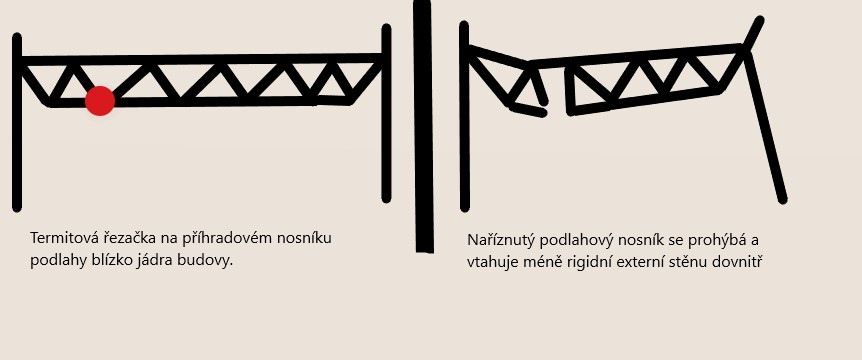 thermite charge attacking a truss